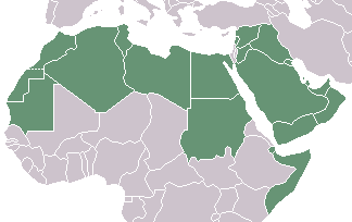 arab map